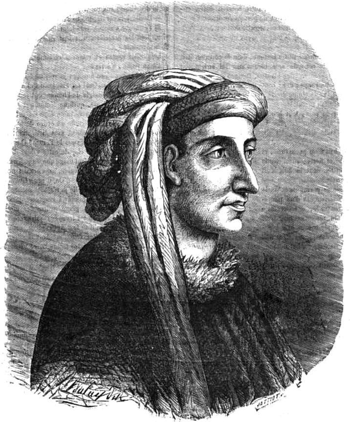 L'Ouvrier, v. 1, Paris, Blériot frères, 1862